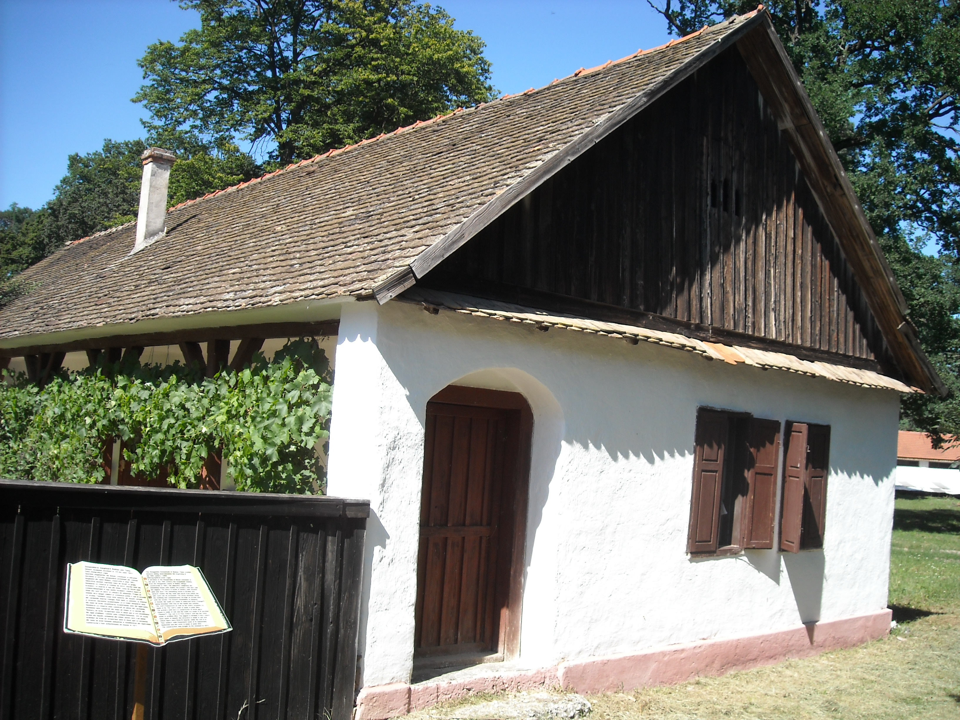 ethnic Hungarian household from Babșa in the Timișoara Open-air Ethnographic Museum